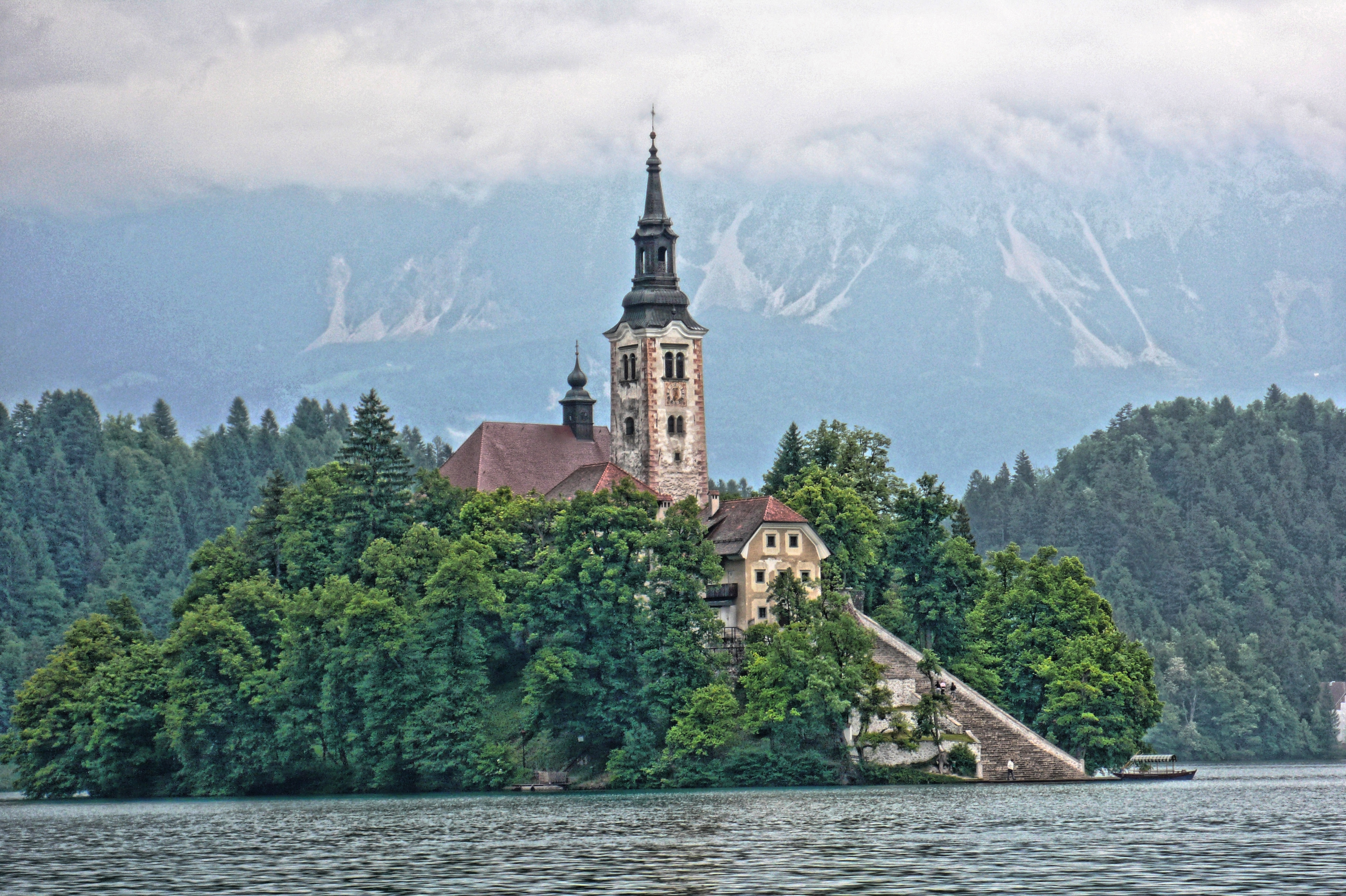 Bled (Slovenia)- Island in Lake Bled - Marienkirche